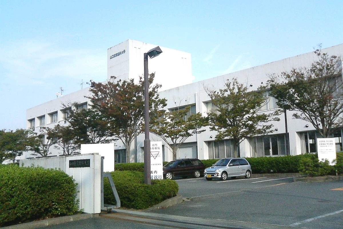 Tokyo University of Science, Yamaguchi